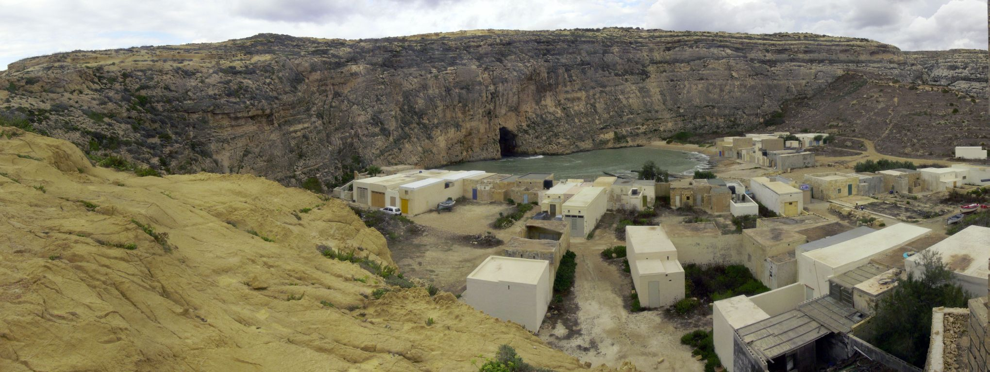 Qawra and the Inland Sea near Dwejra, Malta